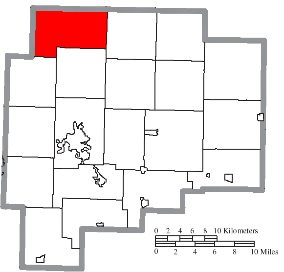 Map of the municipal and township boundaries of Guernsey County, Ohio, United States, as of the 2000 census, with the location of Wheeling Township highlighted. Township borders are shown only in unincorporated areas in order to differentiate incorporated and unincorporated areas more clearly.